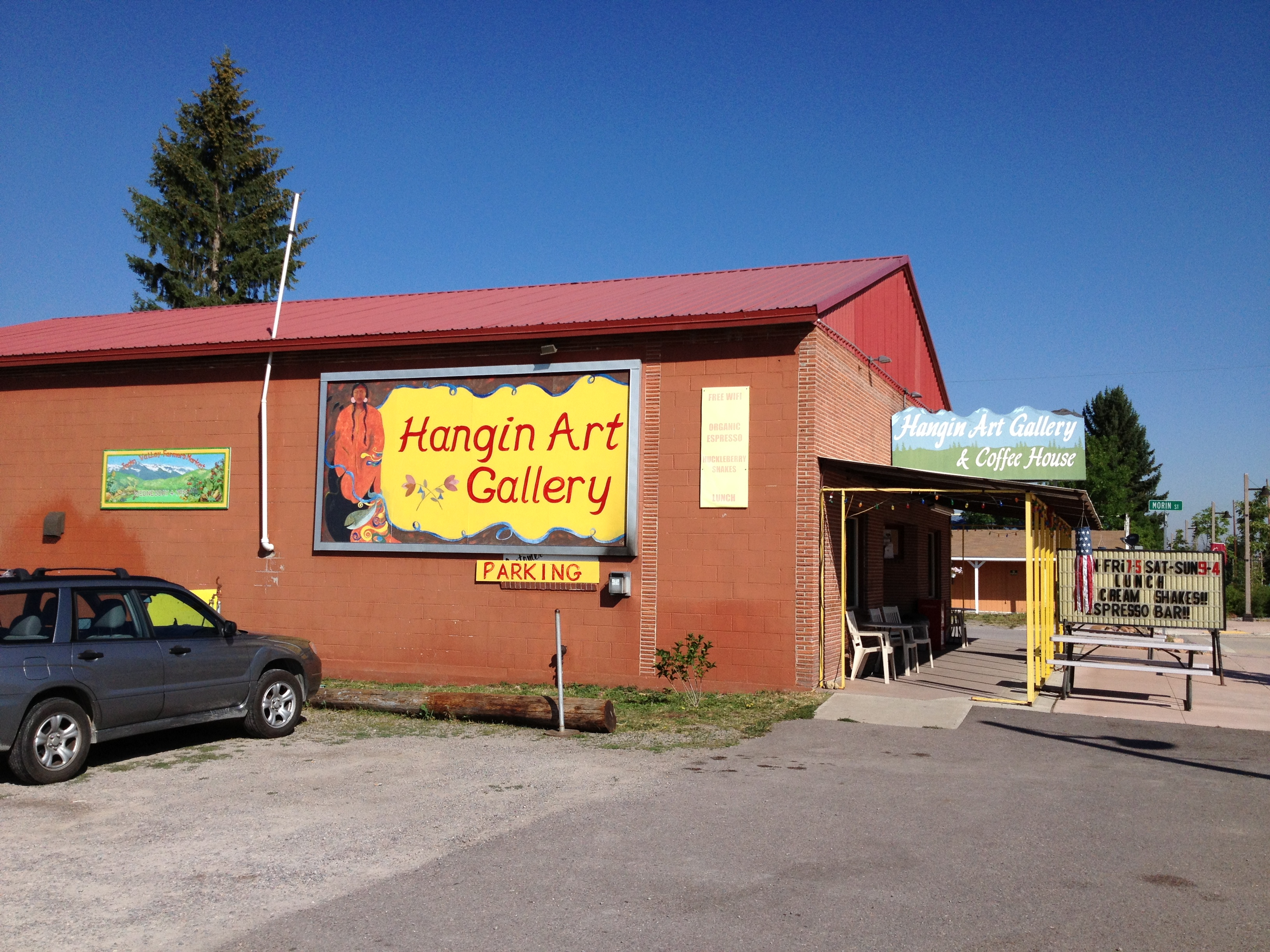 Hangin Art Gallery and Gallery Cafe Arlee Montana 2013